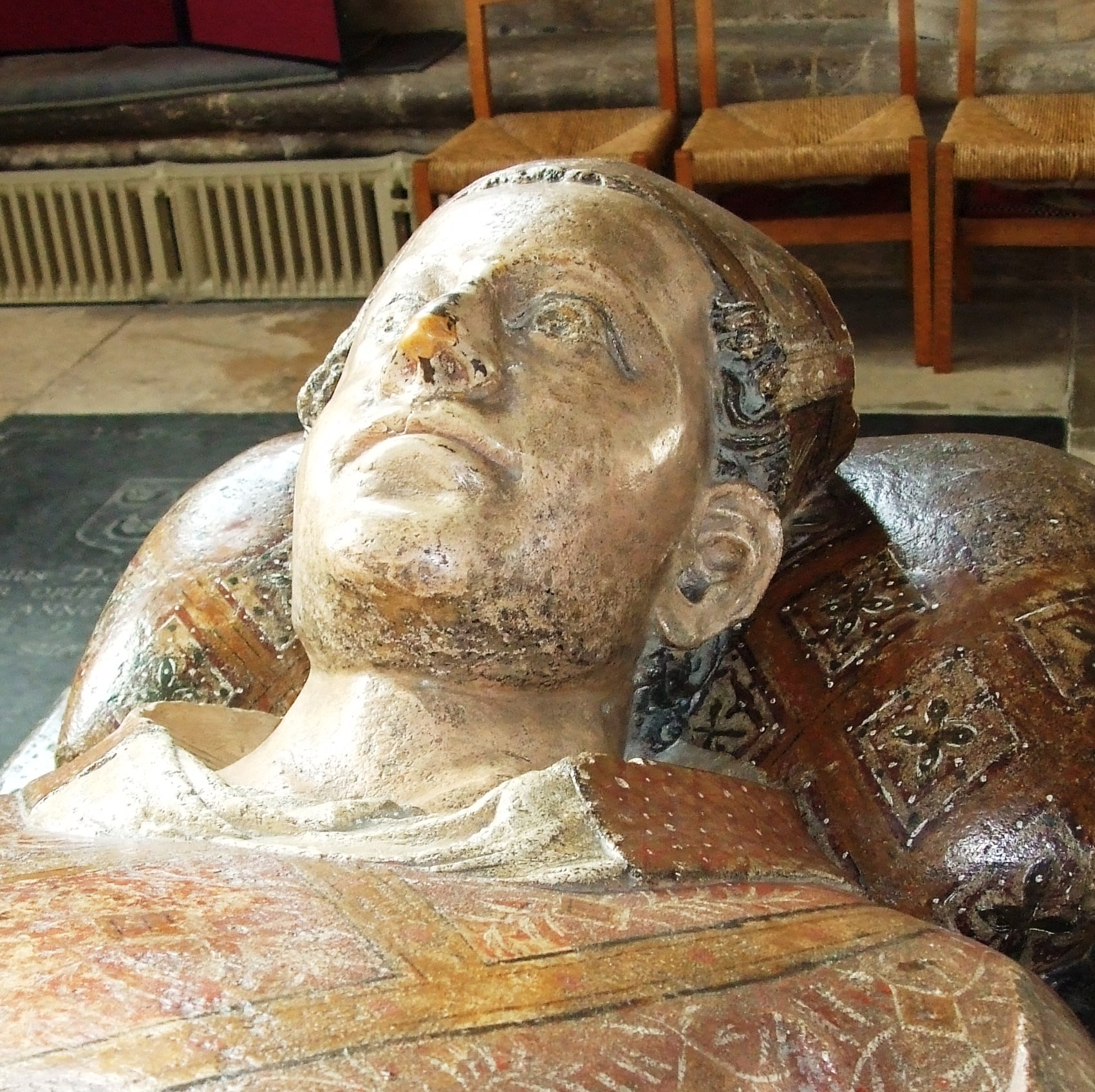 John Drokensford from his tomb at Wells Cathedral